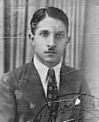 Portrait image of Abd al-Rahim al-Rahmani in 1937